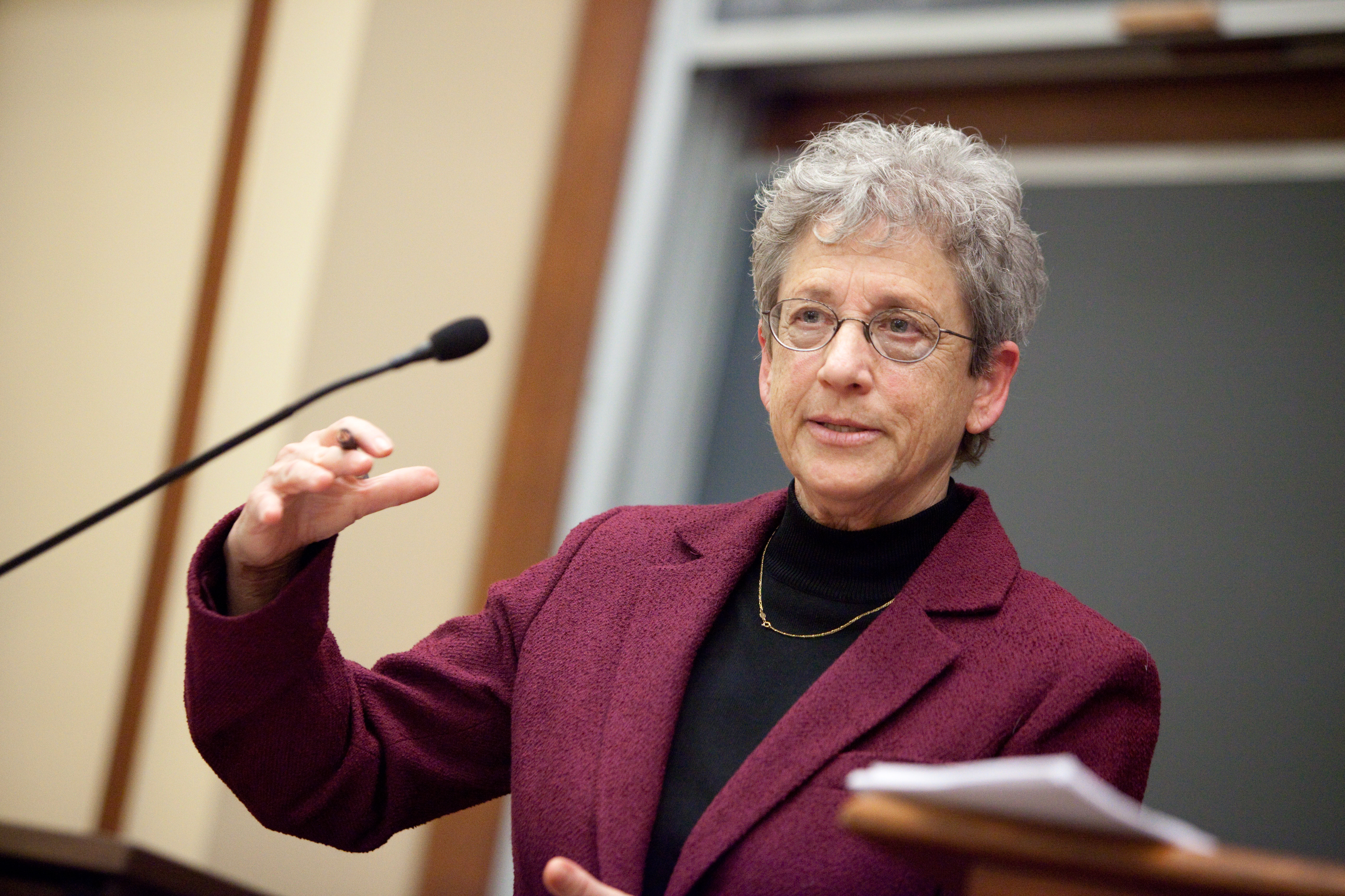 Barbara Herman lecture at the Edmond J. Safra Center for Ethics